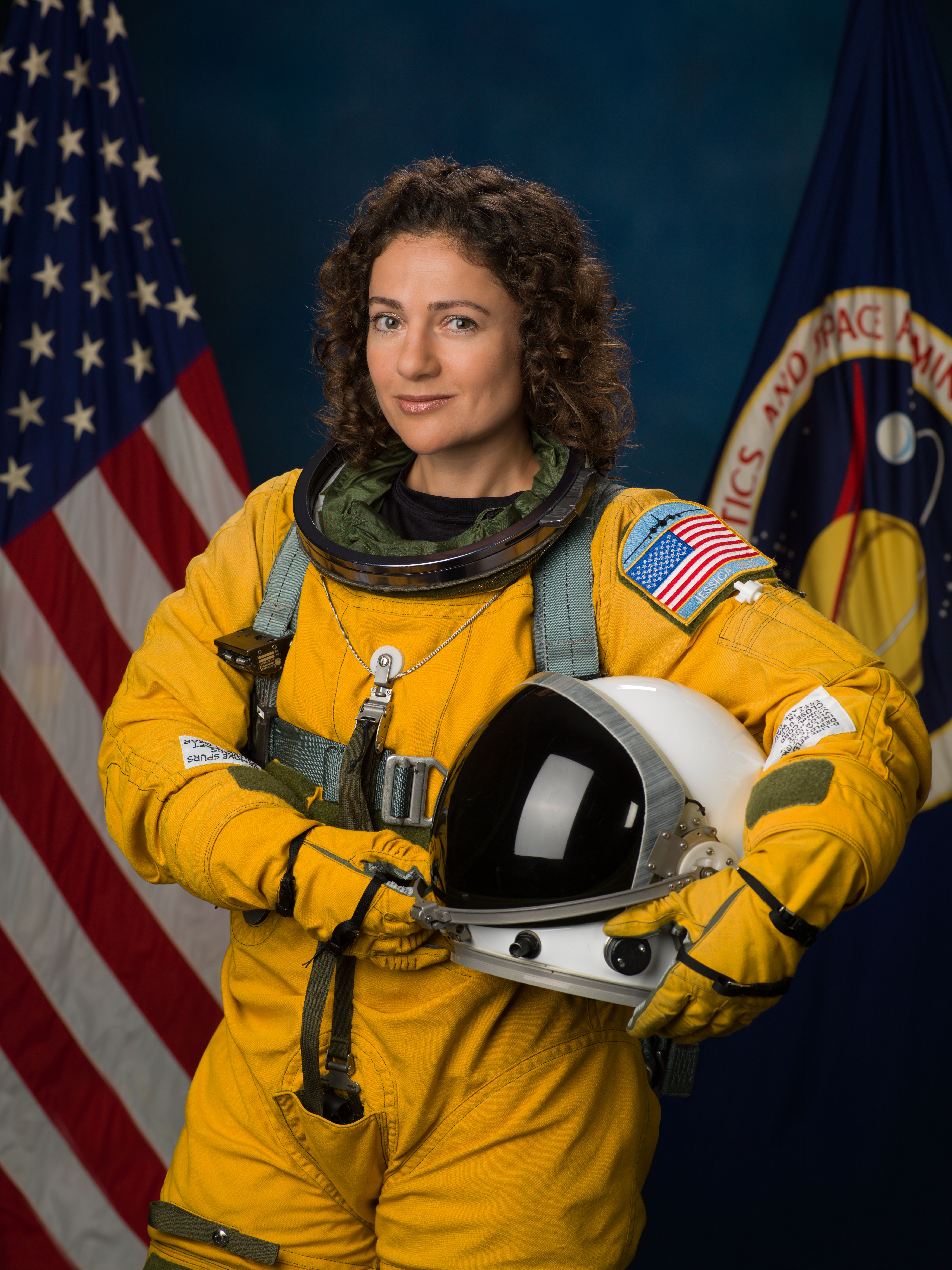 Official portrait of NASA Astronaut Jessica Meir in a WB-57 high altitude flight suit.